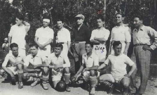 UST team 1932